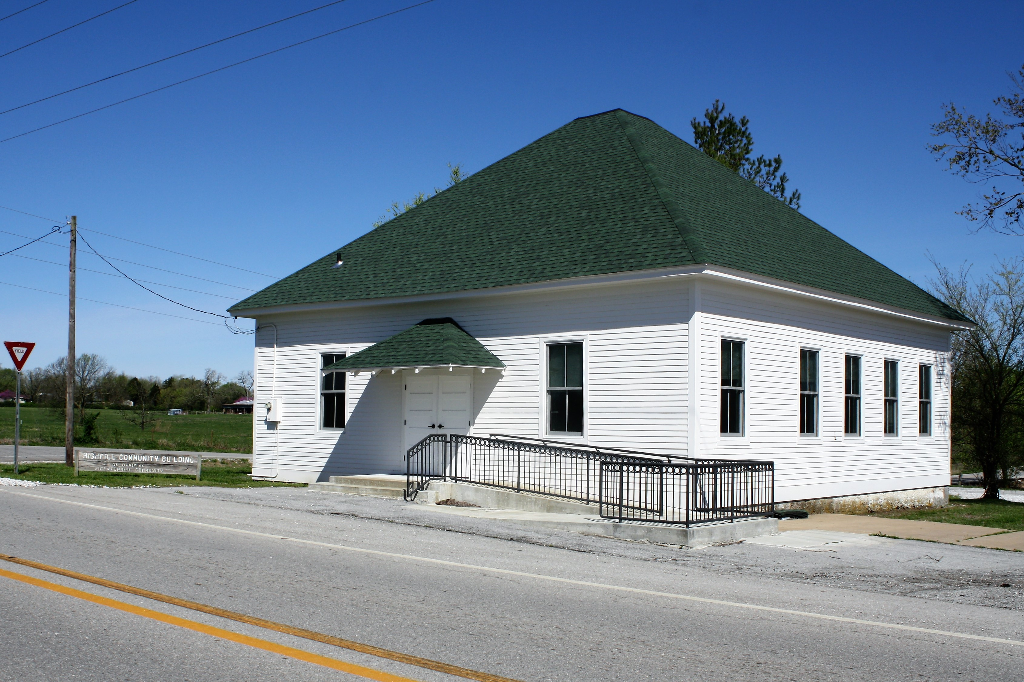 Historic Highfill school building in Highfill, Arkansas on Highway 264